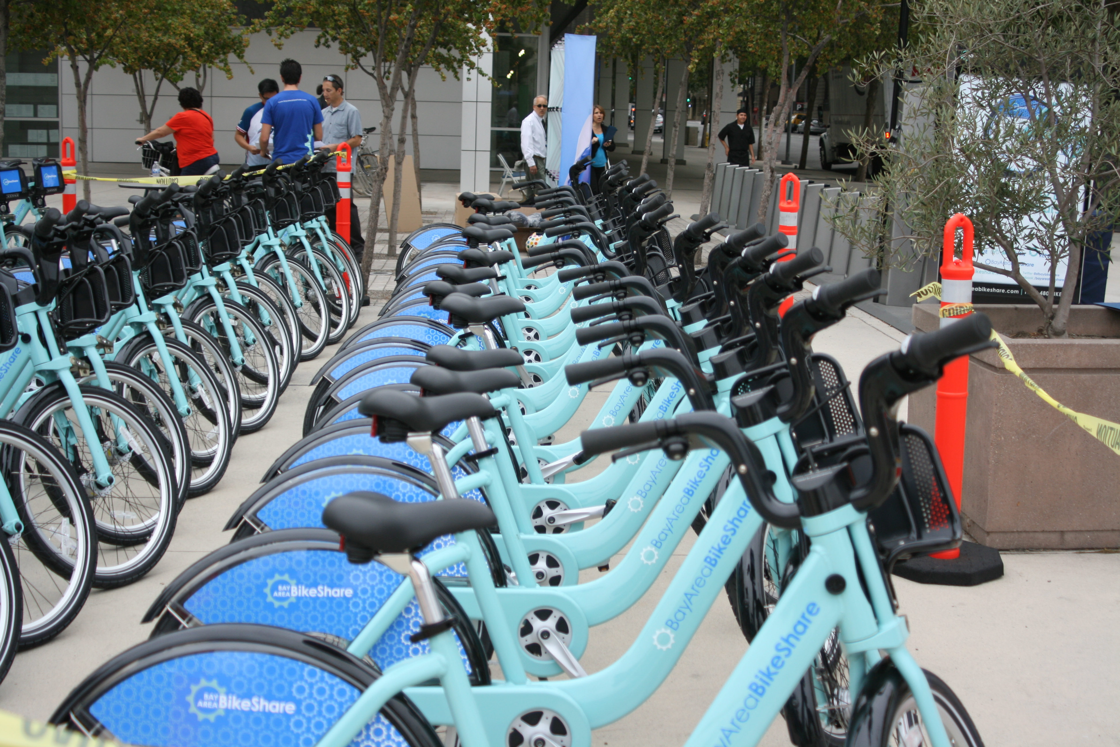 Bay Area Bike Share launch in San Jose CA. 10 AM Thursday, August 29 2013 at San Jose City Hall. Sam Liccardo, Chuck Reed, Joe Pirzynski and several city, county and VTA staff were there, along with assorted bike hippies and of course the mainstream media.